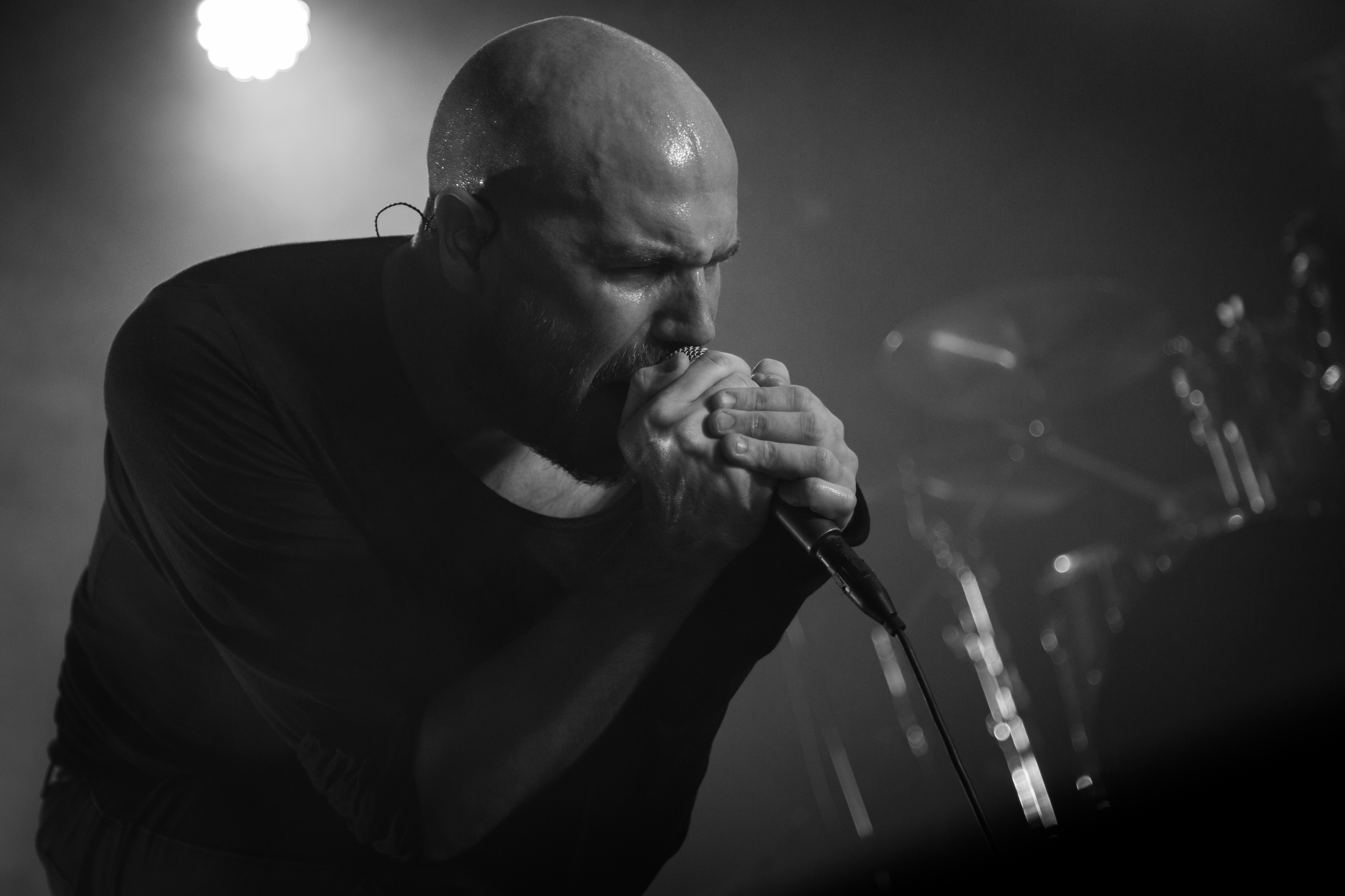 Agent Fresco performing live at Eistnaflug 2016